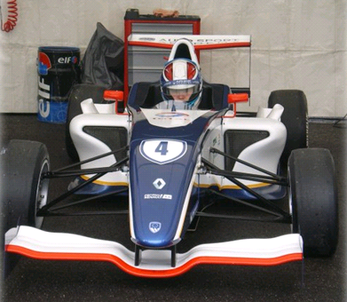 Mathieu Jaminet in F4 Eurocup 1.6 2010